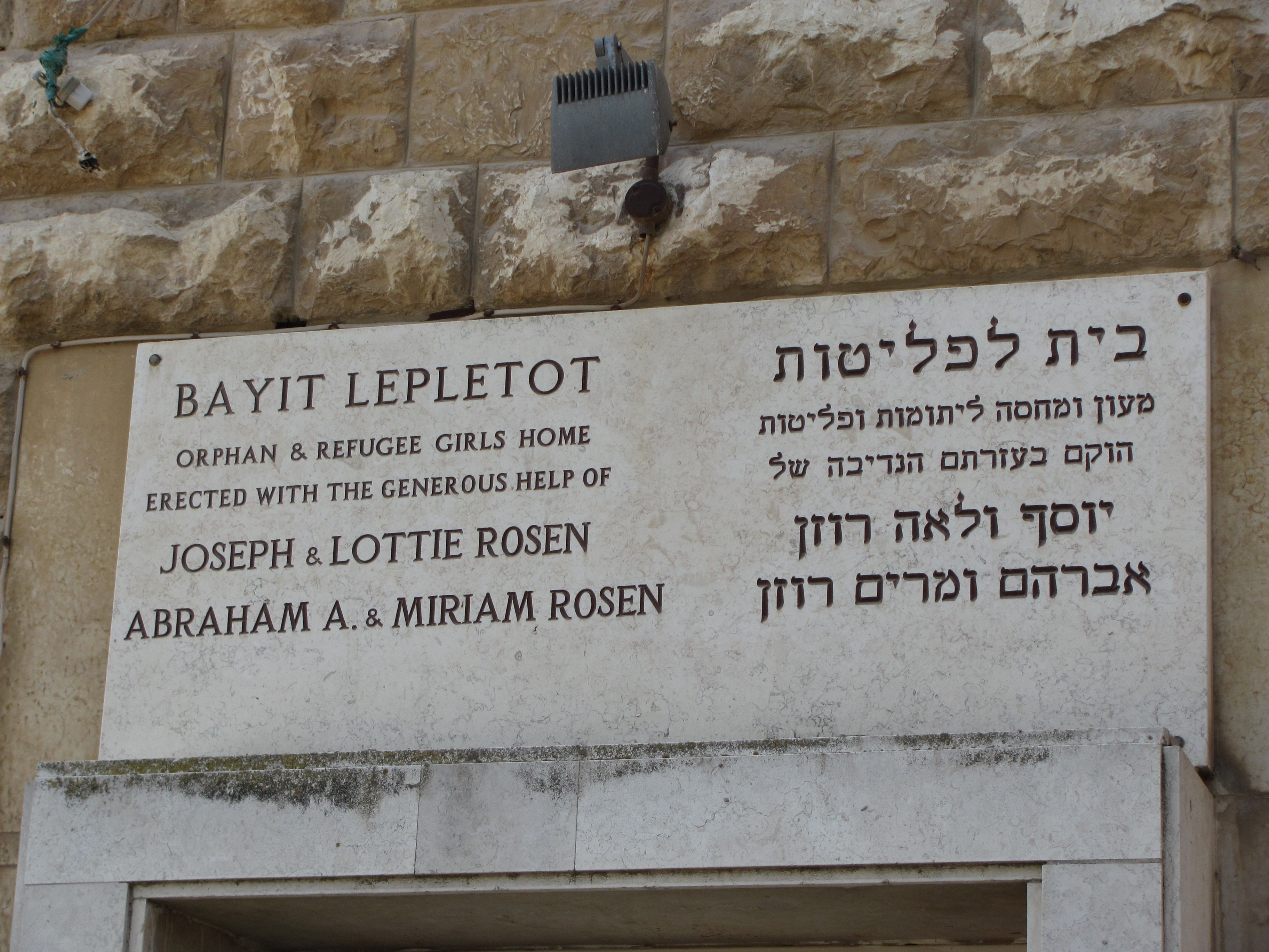 Bayit Lepletot dormitories in Mea Shearim, Jerusalem, Mevo Avraham Rosental, Bayit Lepletot (which means a home for refugees) Girls Orphanage - Dedication plaque on the Mea Shearim, Jerusalem, building of the Bayit Lepletot orphanage, erected in 1959